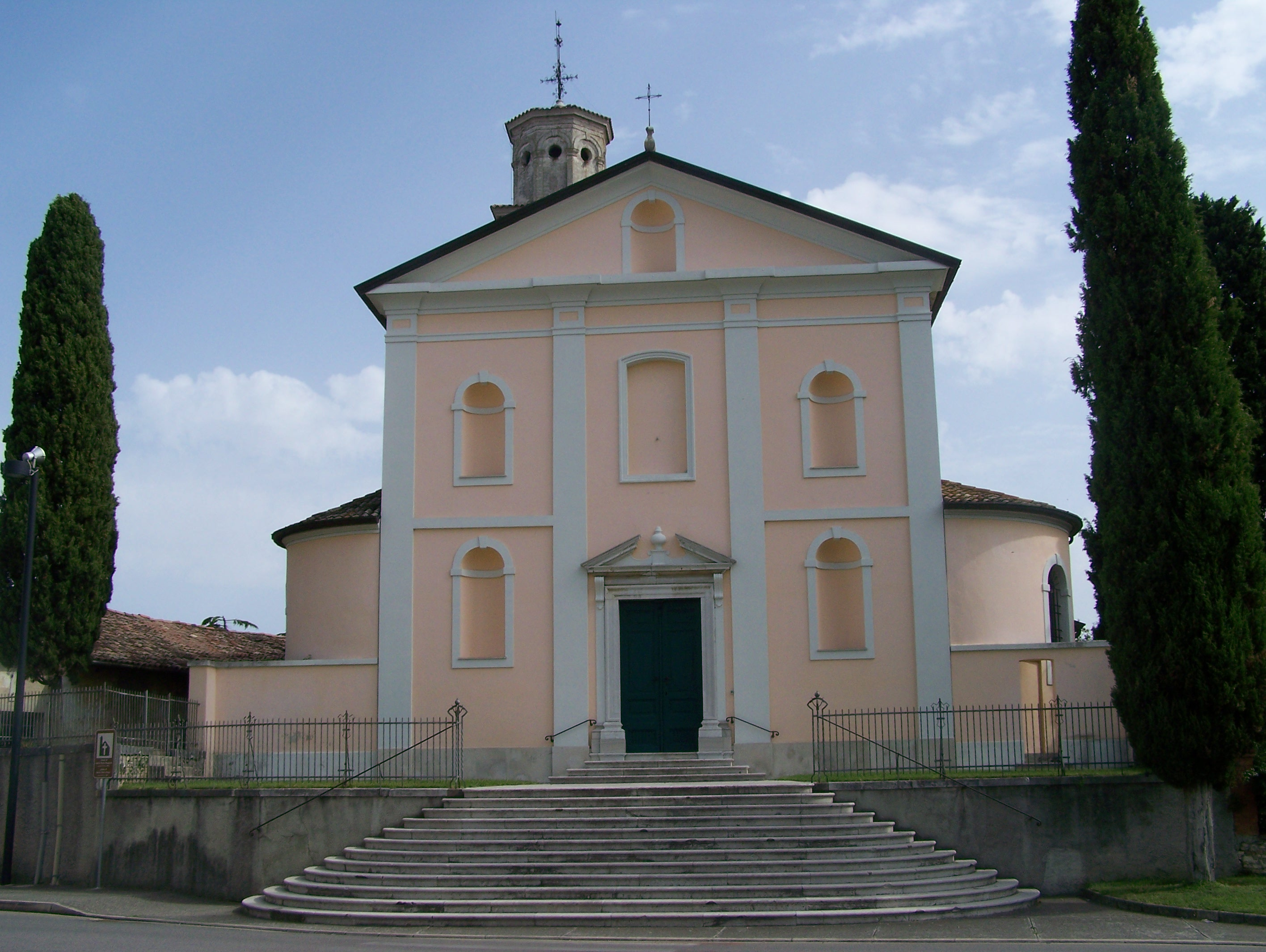 The church of Visco, Friuli, Italy Furlan: La glesie di Visc, te Basse furlane.